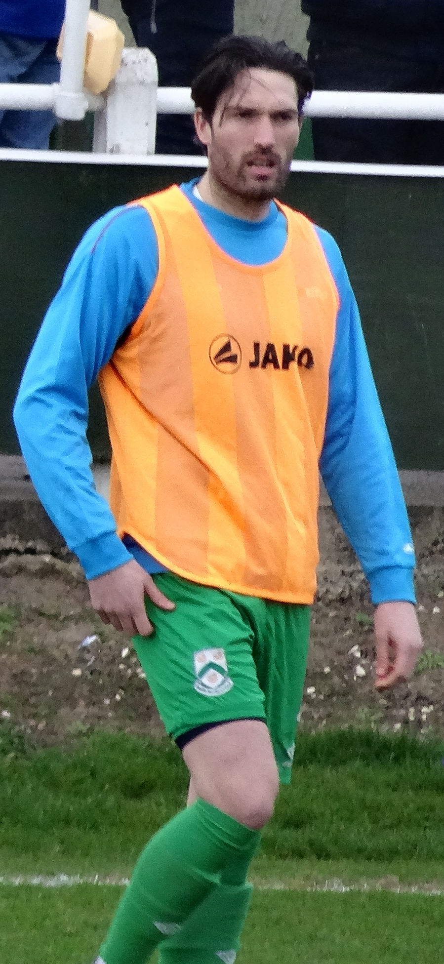 Connor Oliver warming up for North Ferriby United against Solihull Moors at Grange Lane, North Ferriby on 18 March 2017